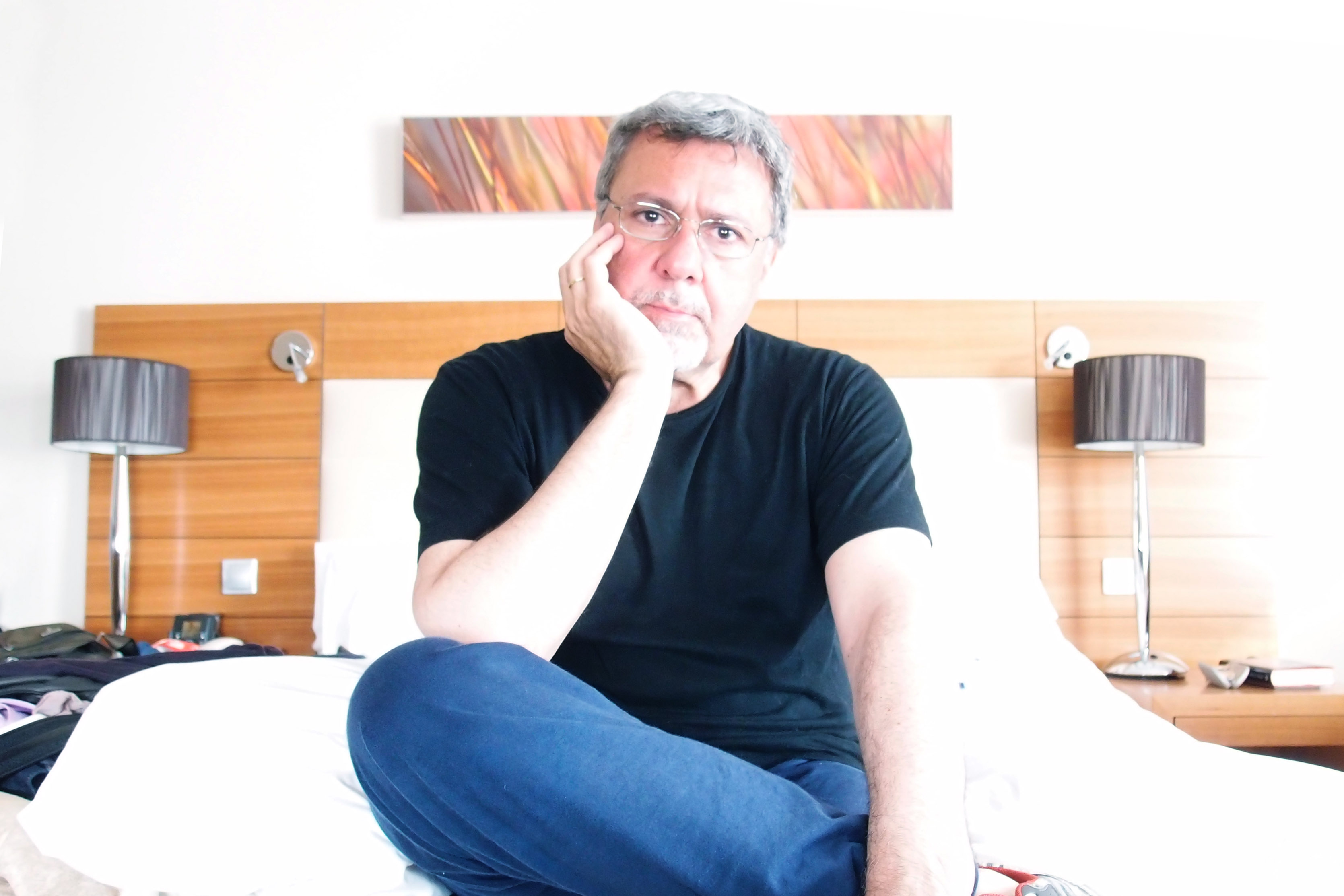 Giuseppe Di Piazza